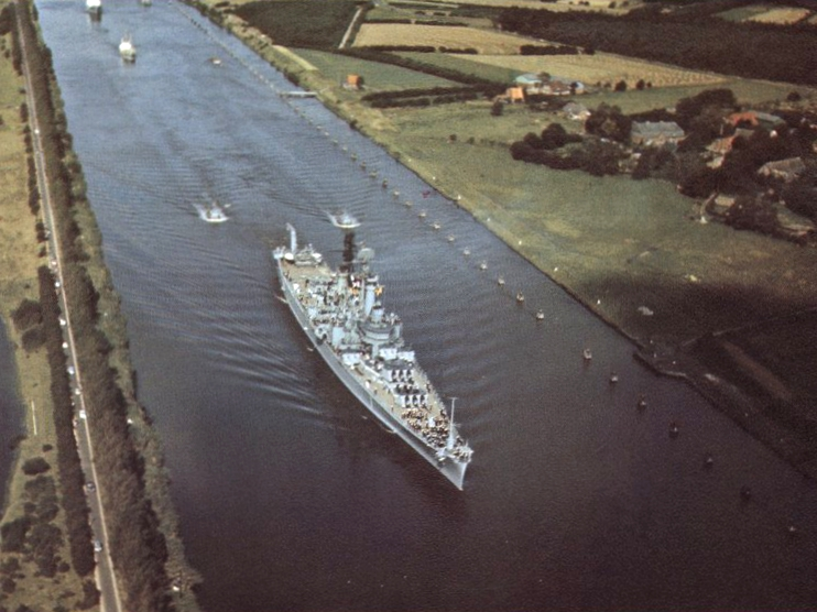 The U.S. Navy heavy cruiser USS Newport News (CA-148) transiting the Kiel Canal, Germany, in 1962.